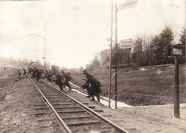 1918 Finnish Civil War: German Baltic Sea Division charging on the outskirts of Helsinki by the Ladugården tram stop. The photo is staged.